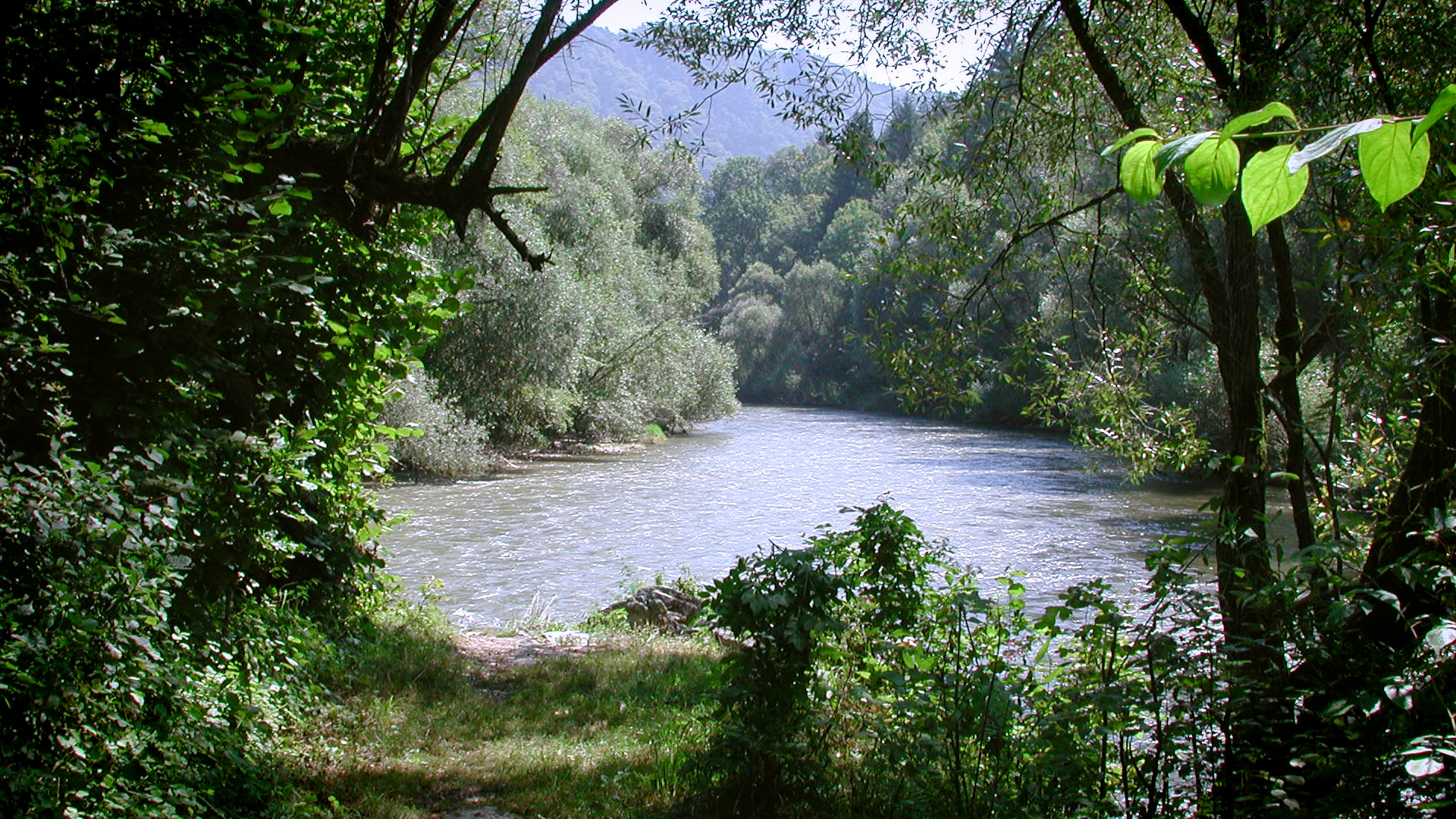 Mouth of the river Glan in the Gurk